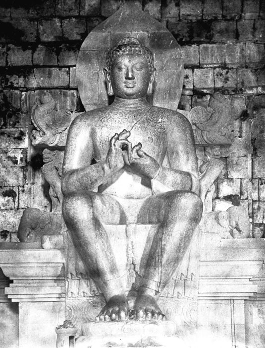 Buddha sculpture in the Candi Mendut